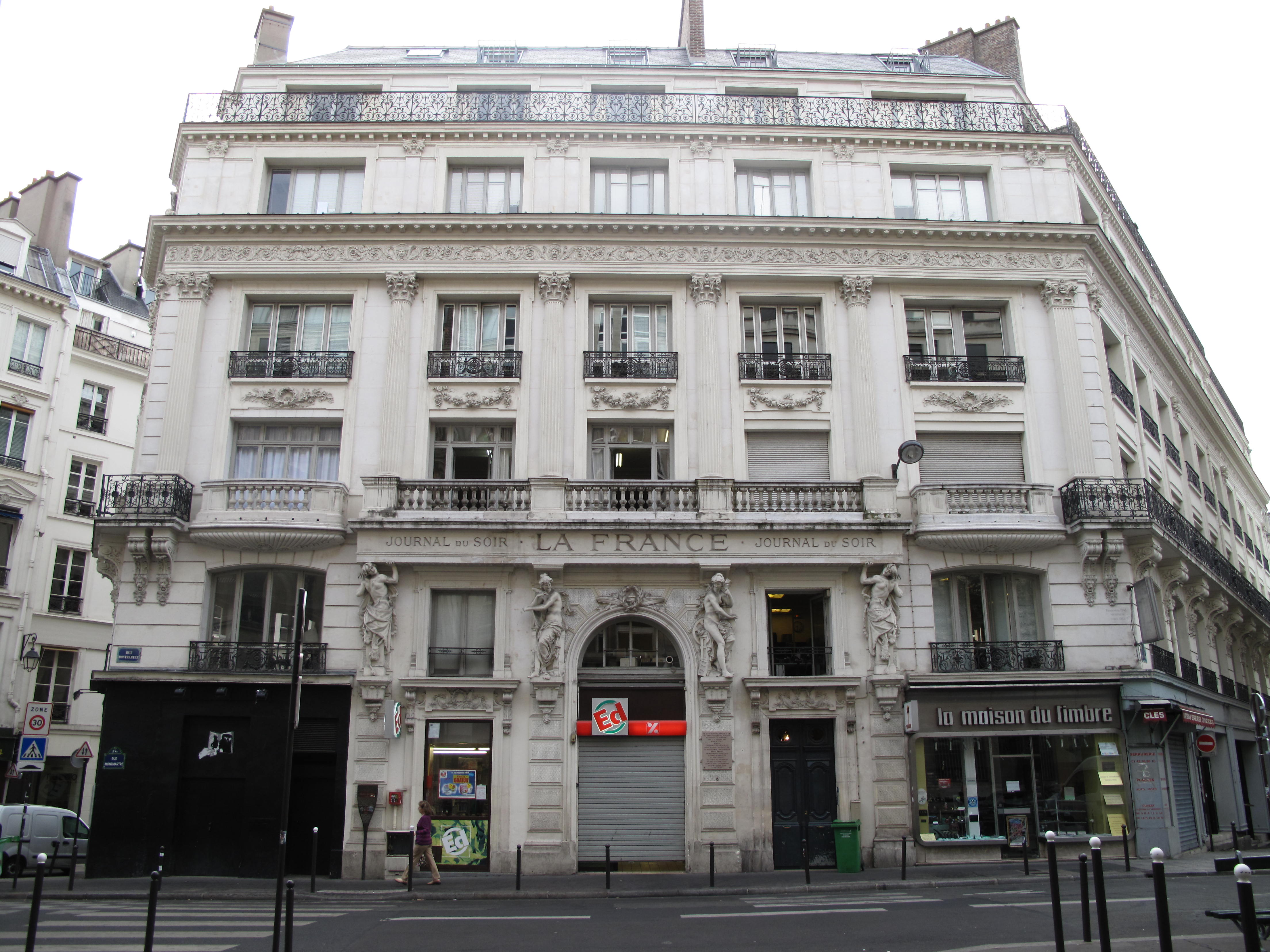 Building where several newspapers were printed, including "l'Aurore" and "la France" : 144 rue Montmartre, Paris 2nd arr. Built in 1883 by the architect Ferdinand Bal.